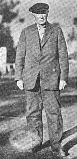 Photograph of Edward Moulton